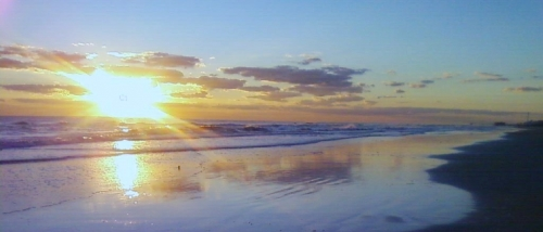 Daytona Beach, Florida